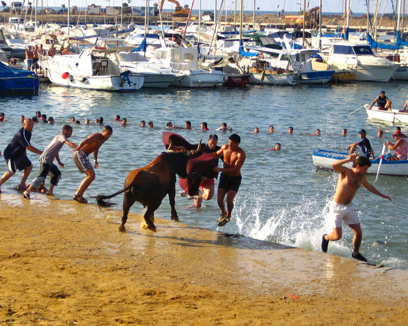 Bous a la Mar in Denia, County Marina Alta, Region of Valencia, Spain.